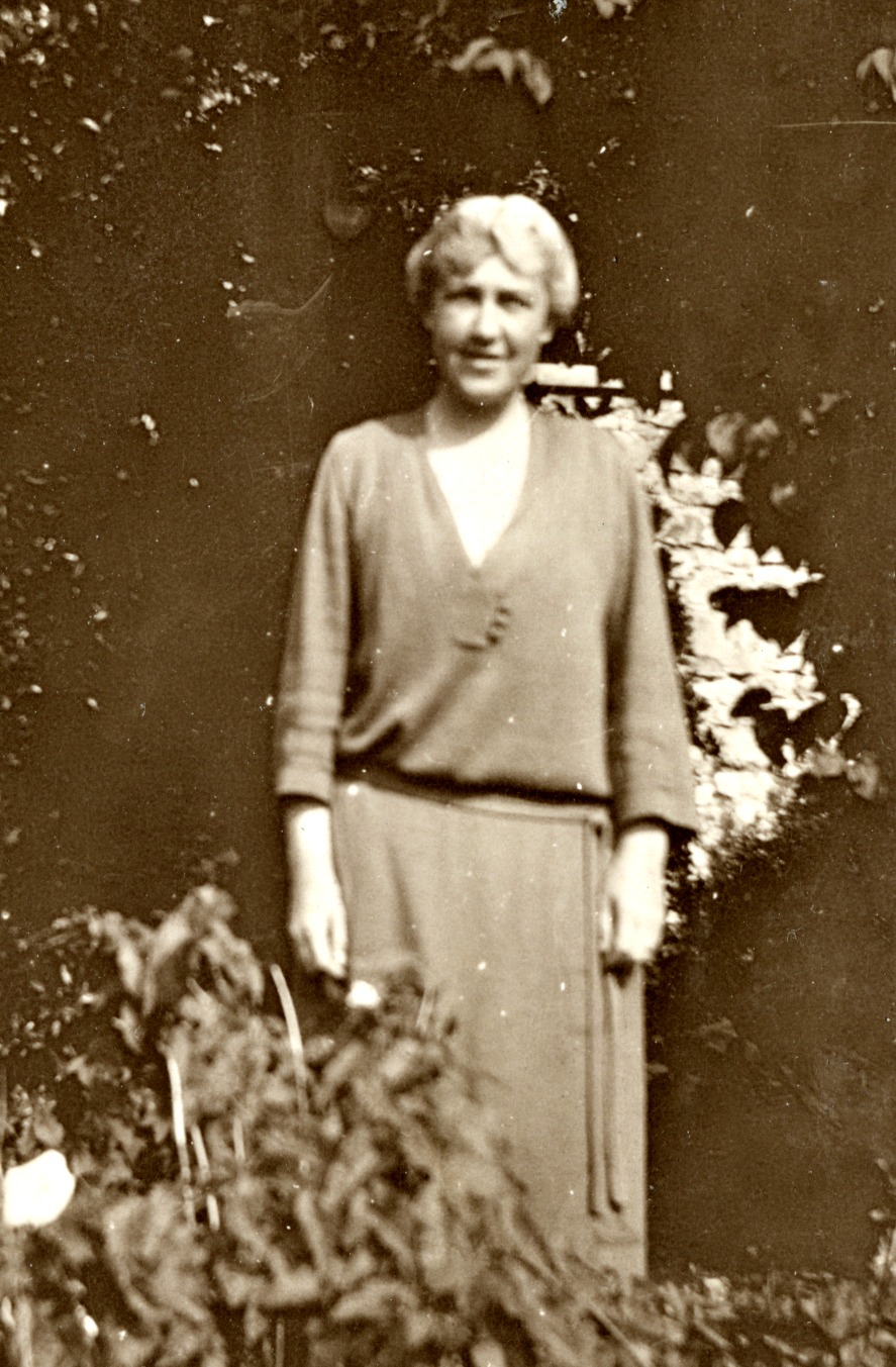 Ida Thallon Hill 1930's.